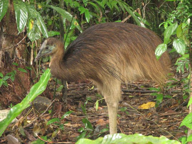 Young casoary in Daintree Forest, Queensland, Australia